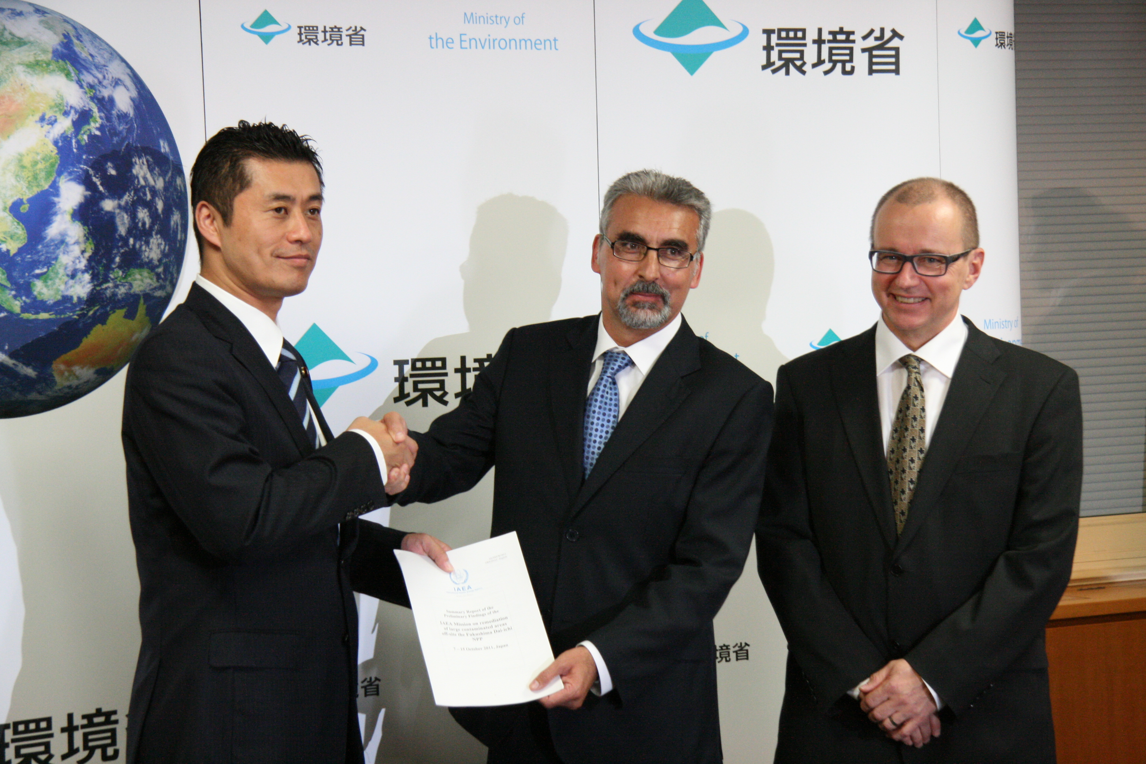 Juan Carlos Lentijo, Team Leader of the International Expert Mission to Japan, International Atomic Energy Agency, and Tero Varjoranta, Deputy Team Leader of the International Expert Mission to Japan, International Atomic Energy Agency, presented a copy of the summary report to Gōshi Hosono, Minister of the Environment, at the Central Government Building No.5 in Chiyoda Ward, Tōkyō Metropolis on October 14, 2011.